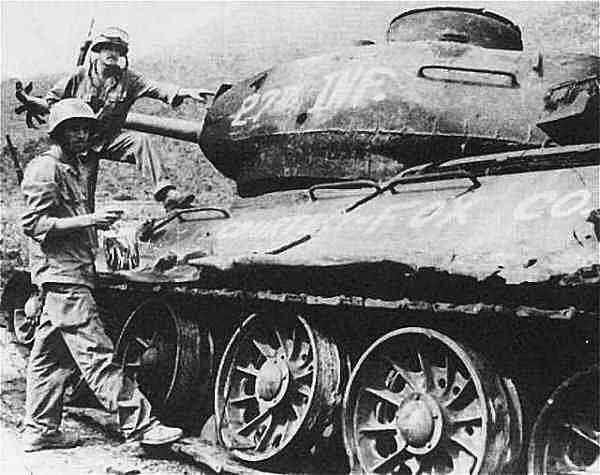 On the Taegu Front, a Destroyed T34, Compliments of 27th Infantry Regiment The Bowling Alley - The Sangju-Taegu Corridor, 8/21/50